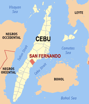 Map of Cebu showing the location of San Fernando